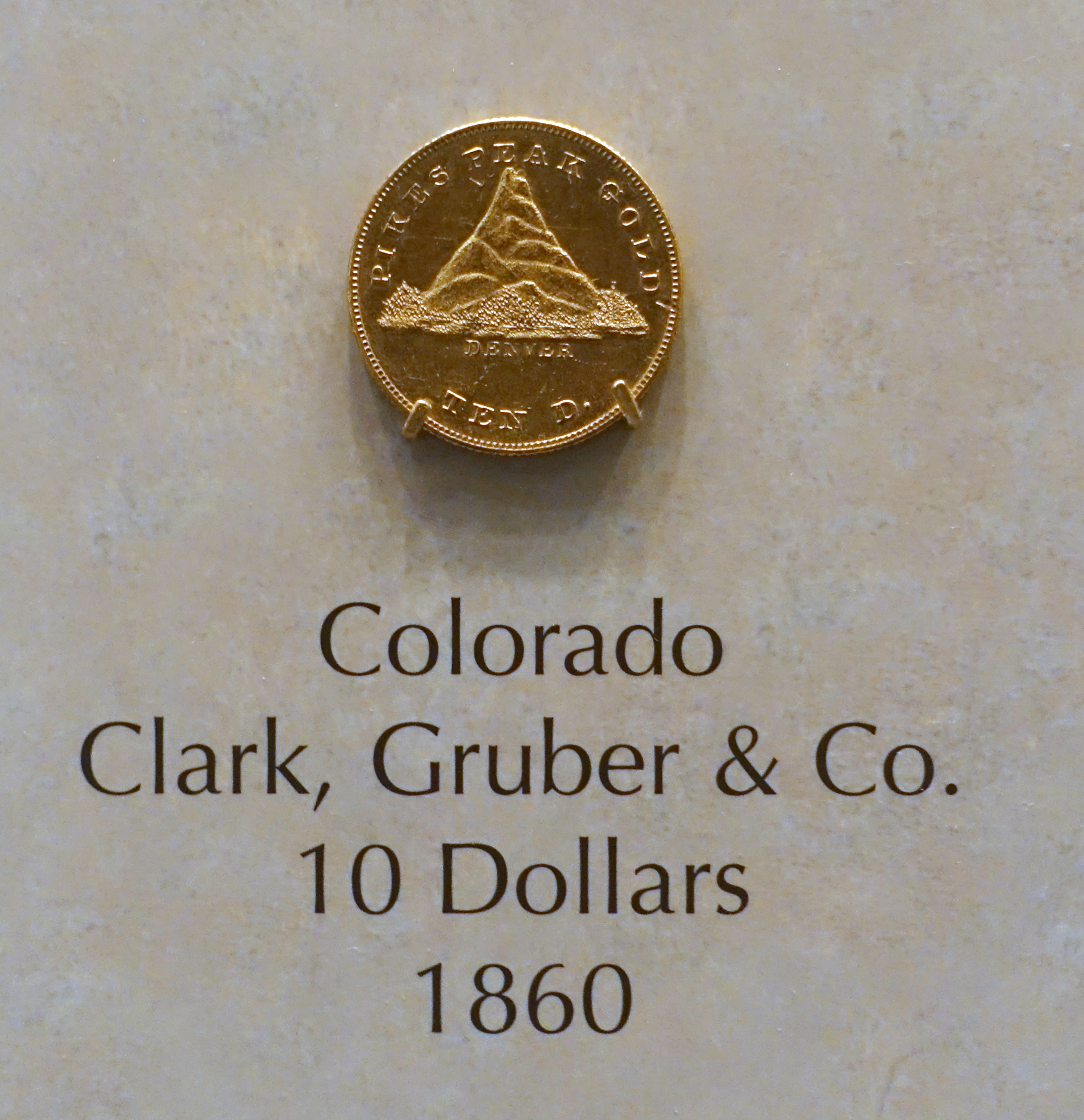 Exhibit in the National Museum of American History, Washington, DC, USA.